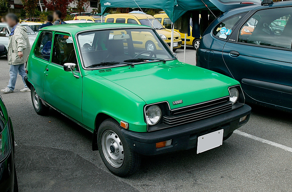 R5 Round head lamps (US and Japan-spec)